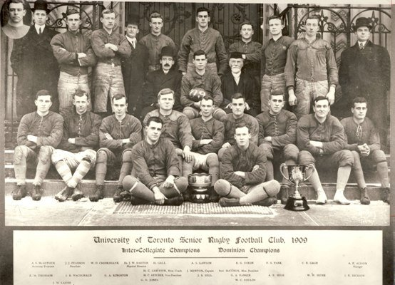 Team photo of the 1909 University of Toronto Varsity Blues, winners of the first Grey Cup. Photograph taken in 1909, image of the Grey Cup (pictured front right) was added following its completion in 1910